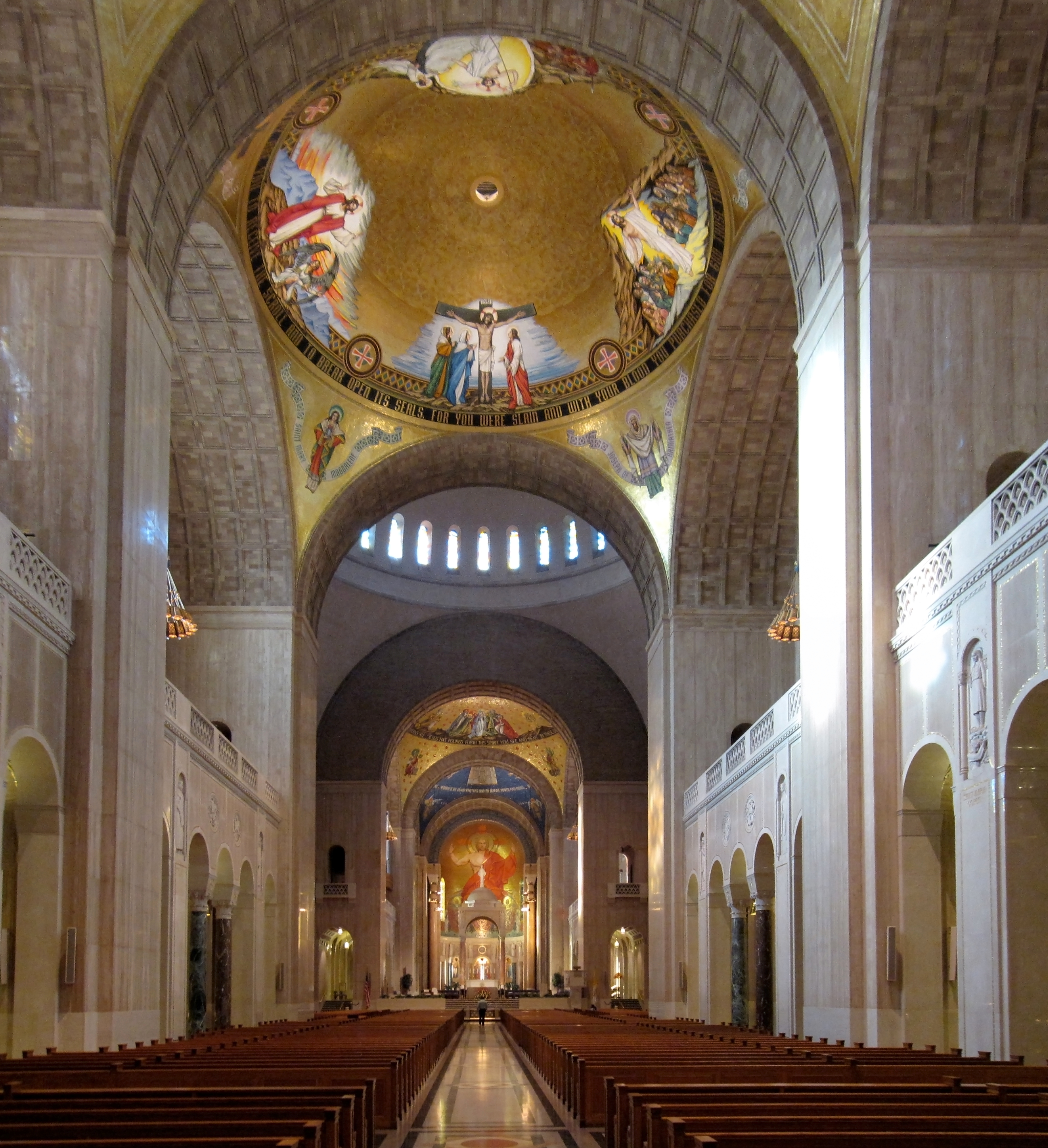 Interior of the Basilica of the National Shrine of the Immaculate Conception in Washington, D.C.